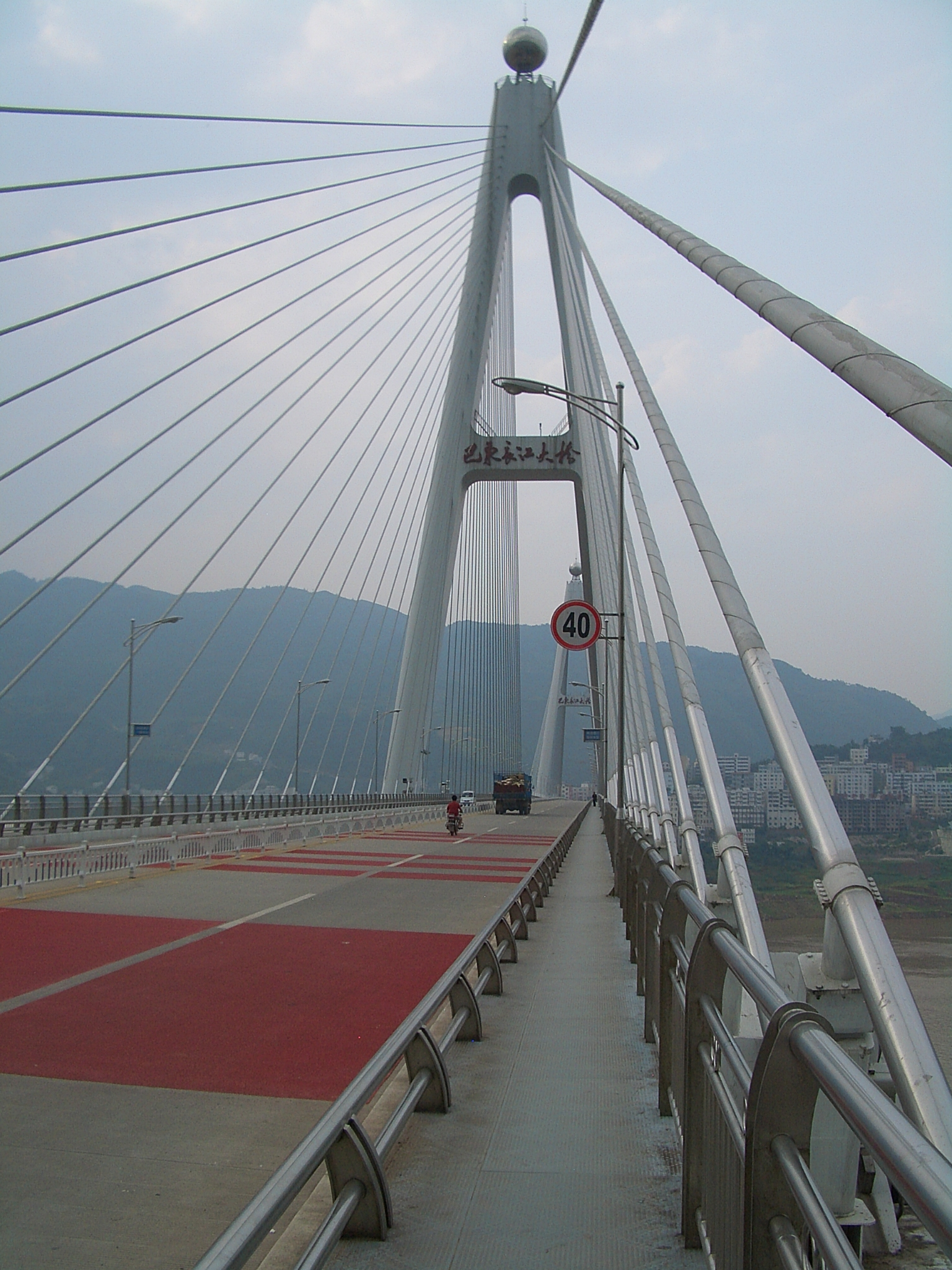 A view of the Chang Jiang, the Badong Bridge, and a section of the port area, from the passenger terminal in Badong